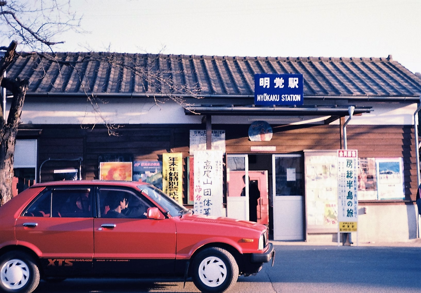 Myōkaku Station on the Hachiko Line in Saitama Prefecture